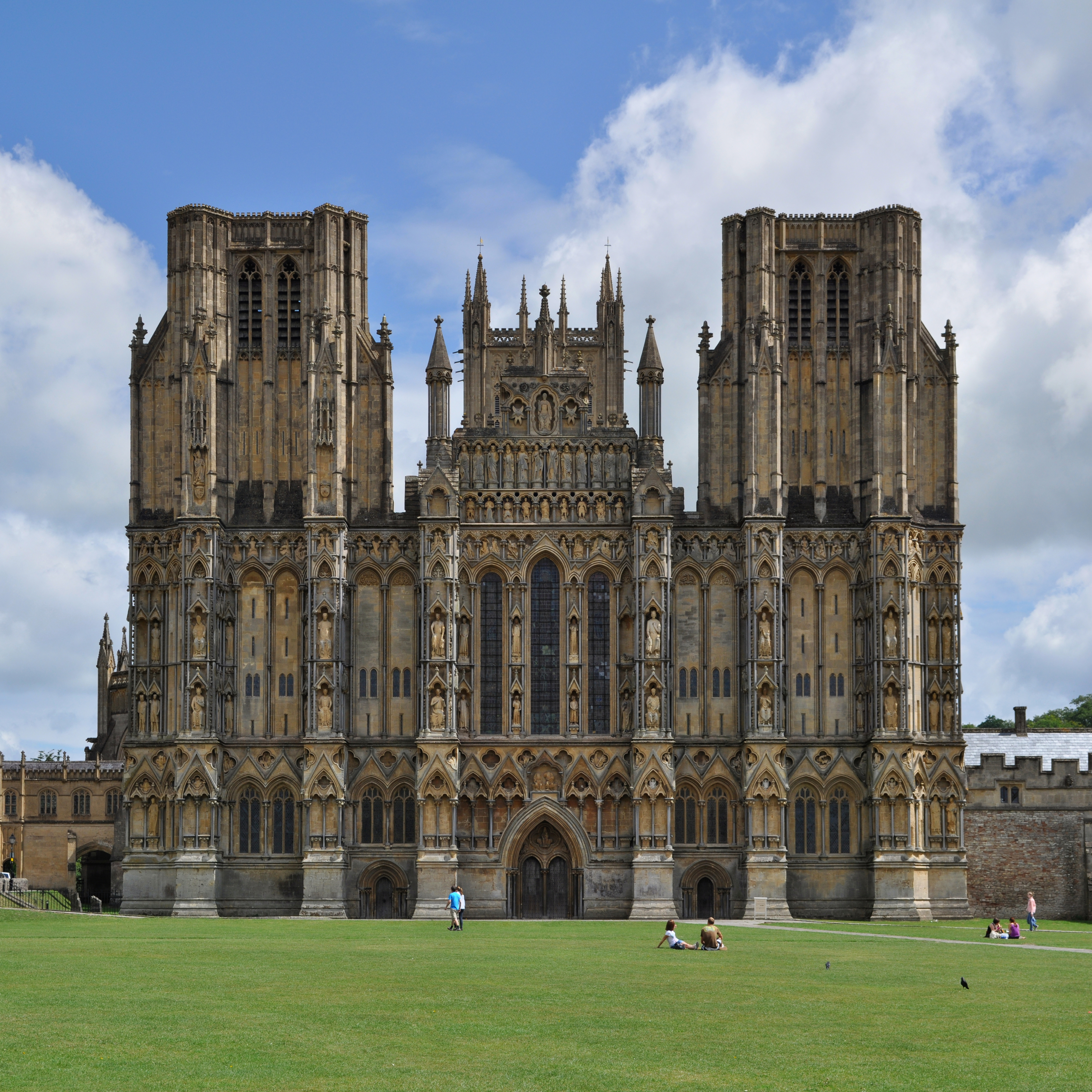 Wells Cathedral, Wells, Somerset